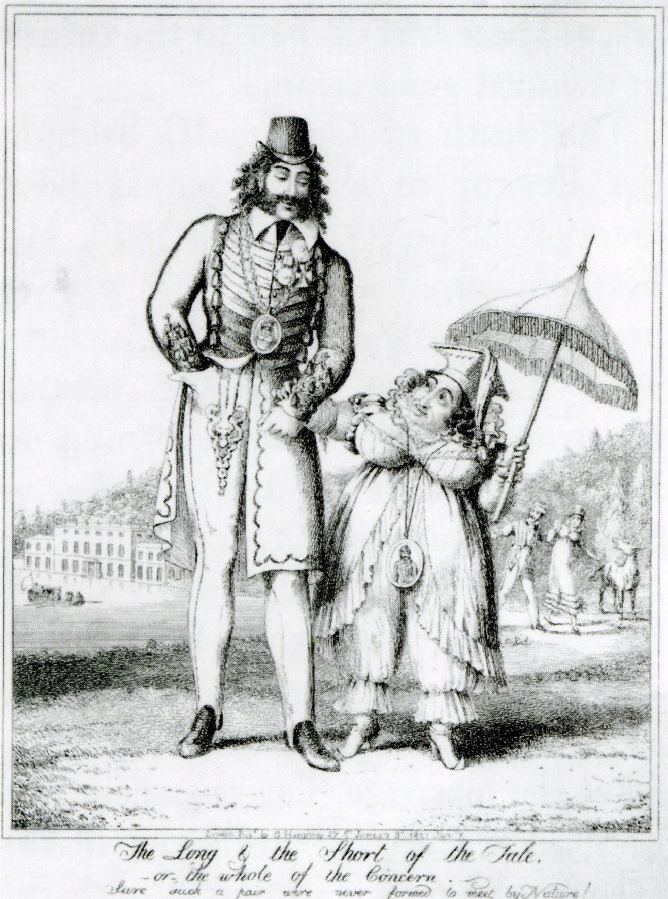 This image is a JPEG version of the original PNG image at File: The Long and Short of the Tale by George Cruikshank.png. Generally, this JPEG version should be used when displaying the file from Commons, in order to reduce the file size of thumbnail images. However, any edits to the image should be based on the original PNG version in order to prevent generation loss, and both versions should be updated. Do not make edits based on this version. See here for more information. The Long and Short of the Tales, caricature engraving of Queen Caroline and Bartolomeo Pergami by George Cruikshank, 1821. 26.2 x 20.7cm (10 1/2 x 8 1/8"). National Portrait Gallery (RN43538). National Portrait Gallery: NPG D17924a While Commons policy accepts the use of this media, one or more third parties have made copyright claims against Wikimedia Commons in relation to the work from which this is sourced or a purely mechanical reproduction thereof. This may be due to recognition of the "sweat of the brow" doctrine, allowing works to be eligible for protection through skill and labour, and not purely by originality as is the case in the United States (where this website is hosted). These claims may or may not be valid in all jurisdictions. As such, use of this image in the jurisdiction of the claimant or other countries may be regarded as copyright infringement. Please see Commons:When to use the PD-Art tag for more information.See User:Dcoetzee/NPG legal threat for original threat and National Portrait Gallery and Wikimedia Foundation copyright dispute for more information. This tag does not indicate the copyright status of the attached work. A normal copyright tag is still required. See Commons:Licensing.